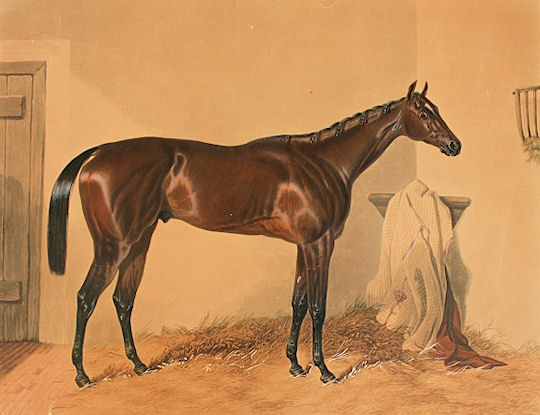 1848 Derby winner Surplice. Etching by Charles Hunt after a painting by Harry Hall.